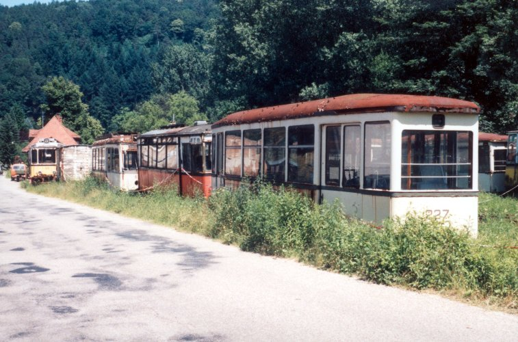 Old trams in the failed project of creating a railay museum in Schönau im Odenwald, Germany.